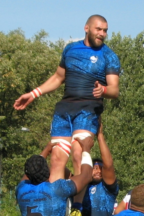 Romanian rugby union international Marius Dănilă, player of CSM Baia Mare rugby club seen in a match against CSA Steaua București in Round 5 of Romanian Rugby SuperLiga in September 2017